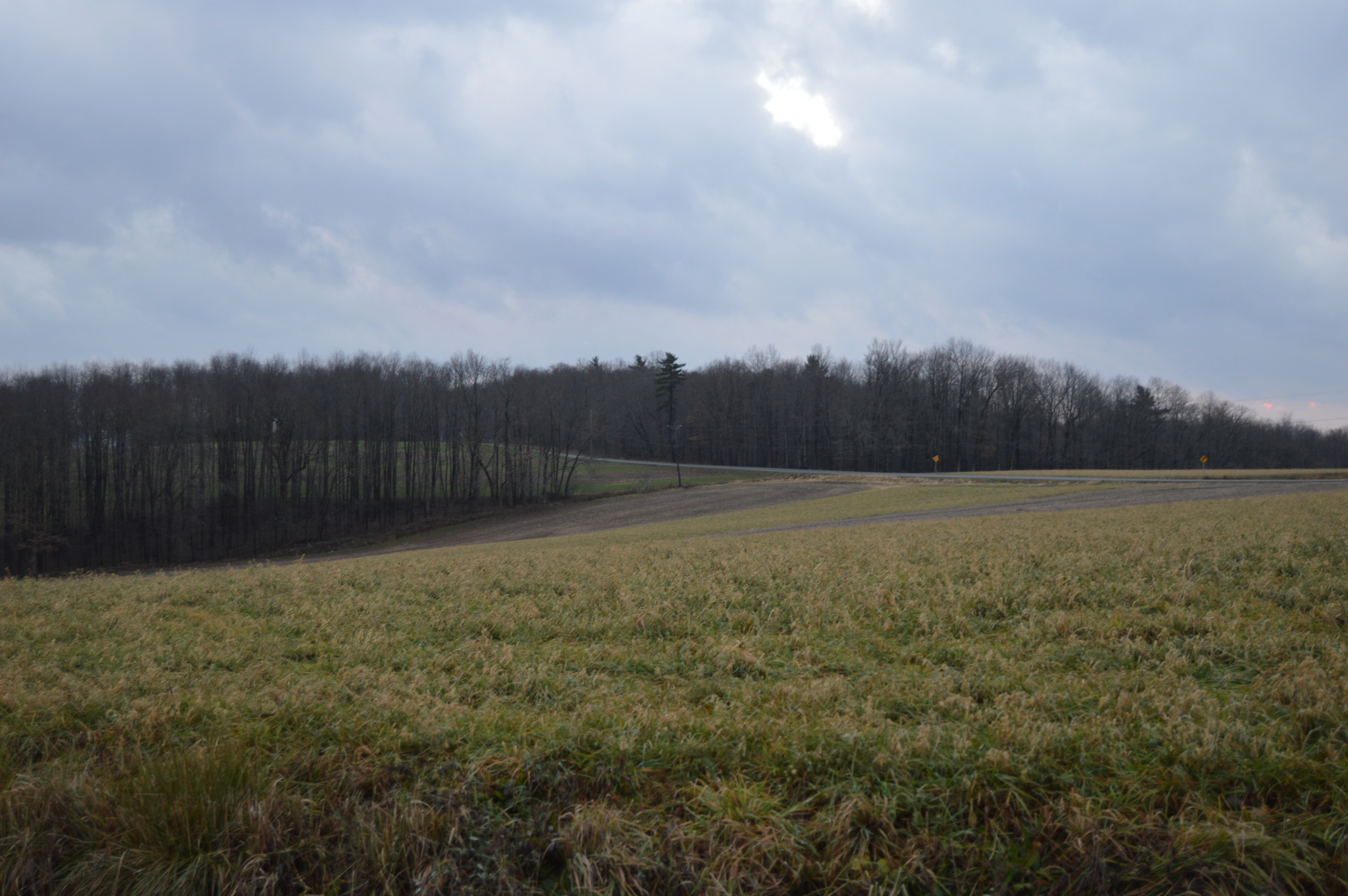 Fields in southwestern Washington Township, Clarion County, Pennsylvania, United States. Photo looks south from Paint Mills Road just south of the Pennsylvania Route 208 intersection; PA 208 is the road in the distance.